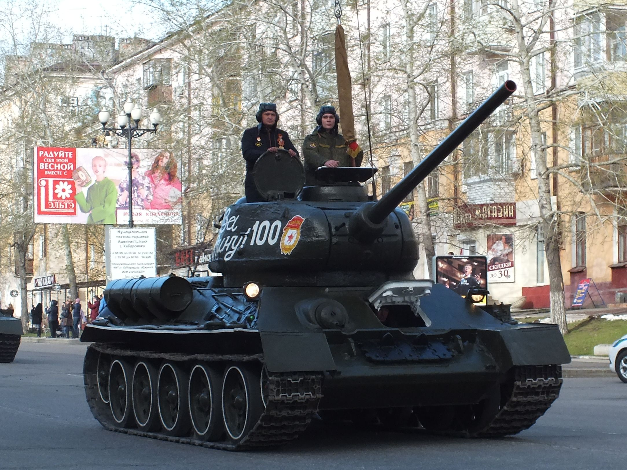 T-34-85 tanks